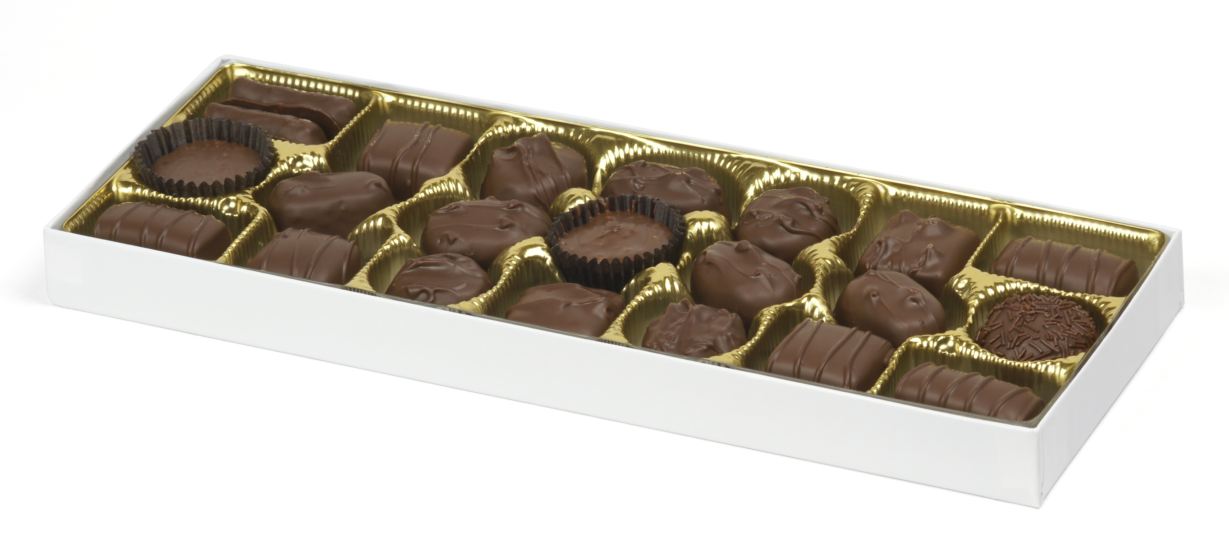 A Russell Stovers box of milk chocolates.